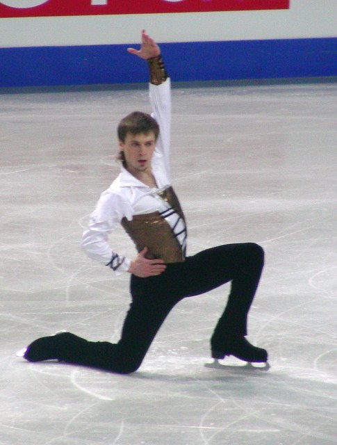 Sergei Davydov on the 2007 European Figure Skating Championships in Warsaw - free skate